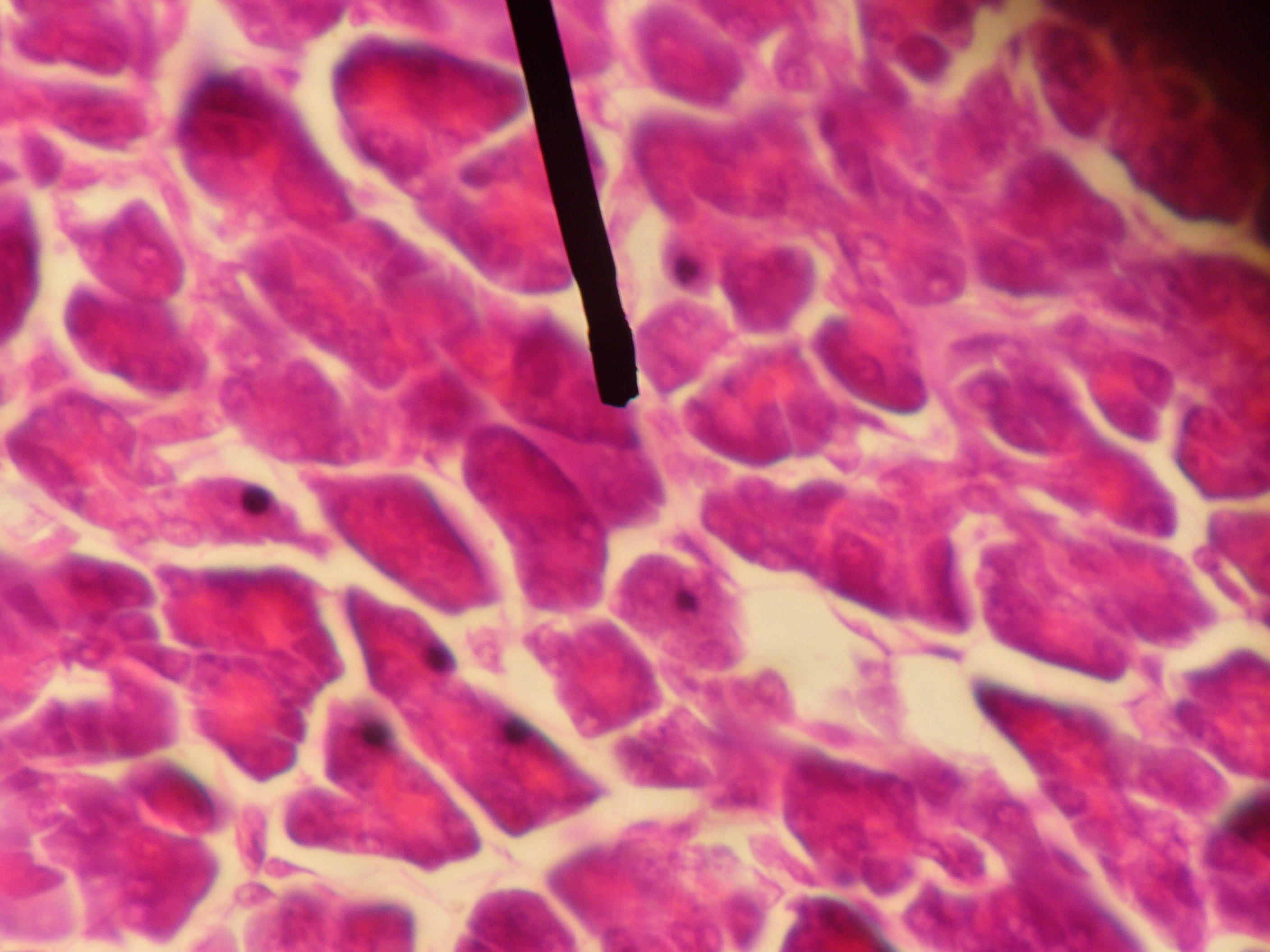 Author's own picture. Digital camera shot of human acinar cells through a microscope.